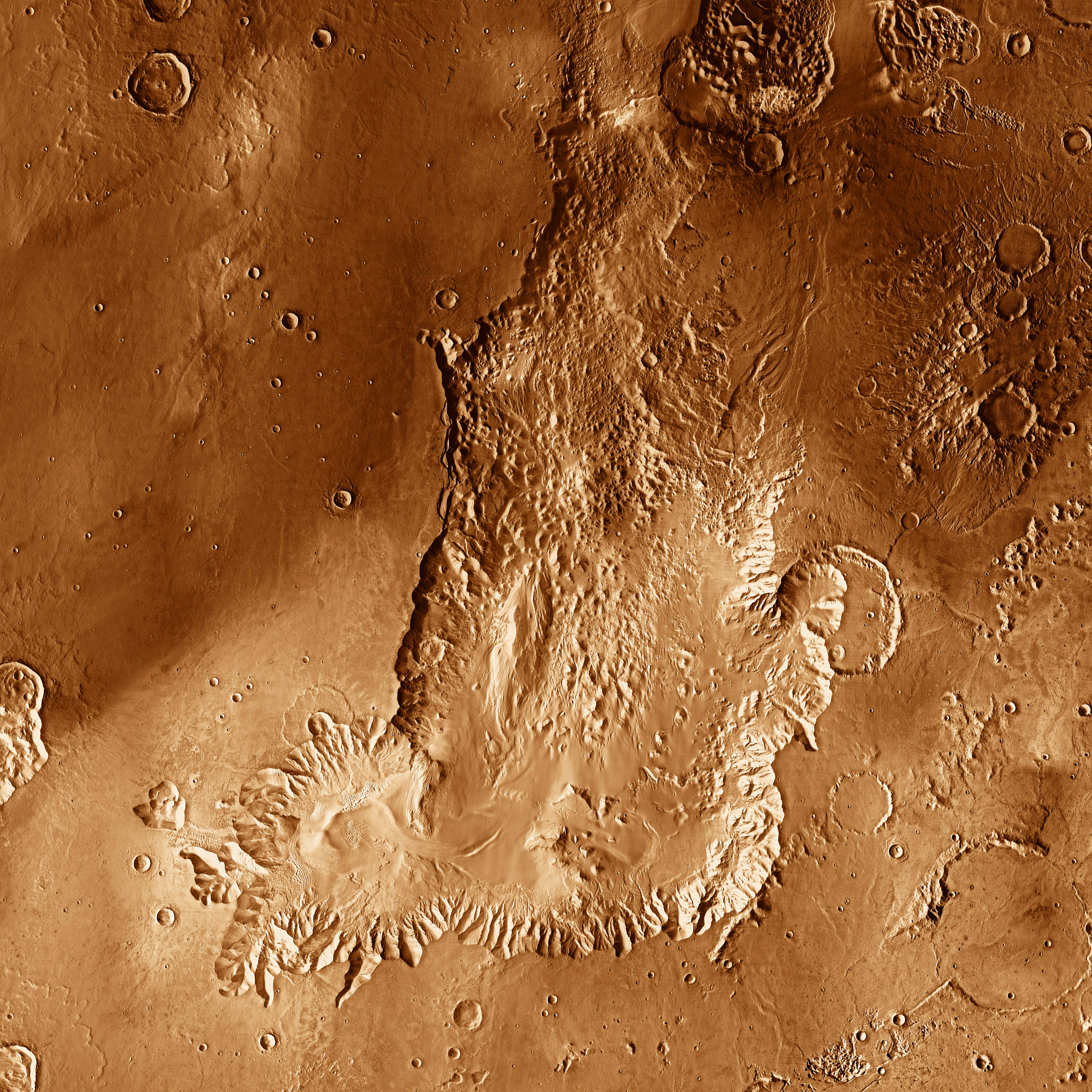 View of Juventae Chasma, a box canyon on Mars north of Valles Marineris which is the source region of the outflow channel Maja Valles. This image was obtained by cropping a massive 23,711 × 11,856 pixel mosaic of NASA images, and adjusting in hue and saturation. The original caption for the mosaic reads in part as follows: This mosaic image of Valles Marineris - colored to resemble the martian surface - comes from the Thermal Emission Imaging System (THEMIS), a visible-light and infrared-sensing camera on NASA's Mars Odyssey orbiter. Mars Odyssey was built by Lockheed Martin and the mission is operated by the Jet Propulsion Laboratory. Built from more than 500 daytime infrared photos, the mosaic shows the whole valley in more detail than any previous composite photo. Despite the valley's huge extent - including its western extension through Noctis Labyrinthus, it reaches some 3,000 kilometers (2,000 miles) long - the smallest details visible in the image are about the size of a football field: 100 meters (328 feet).